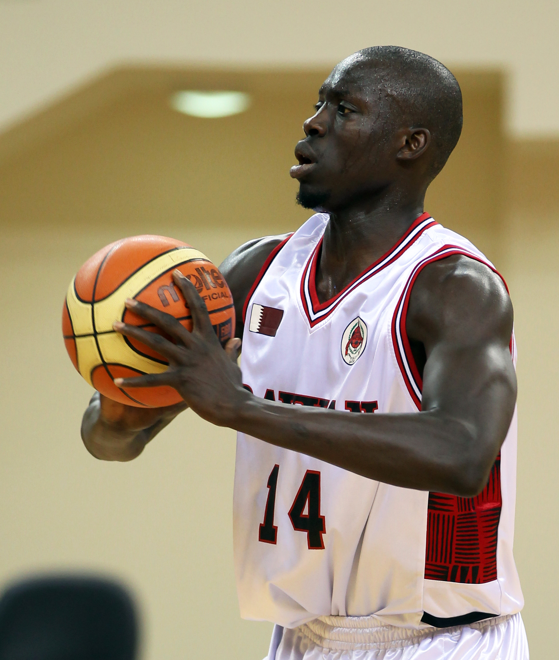 Al Rayyan's Erfaan Saaeed is poised to shoot during his team's Qatar League game against Al Sadd at the Al Gharafa Indoor Hall. Picture by Mohan